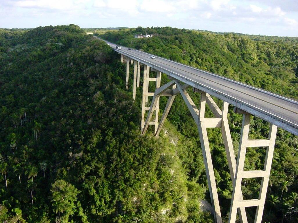 An impressive bridge in Cuba, on the road to Varadero, from Havana.